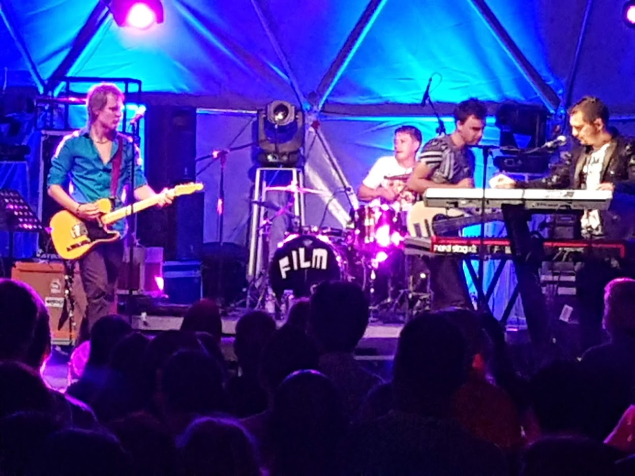 Croatian rock group, Film, performing in 2018 at the Dubrovnik Craft Beer Festival.